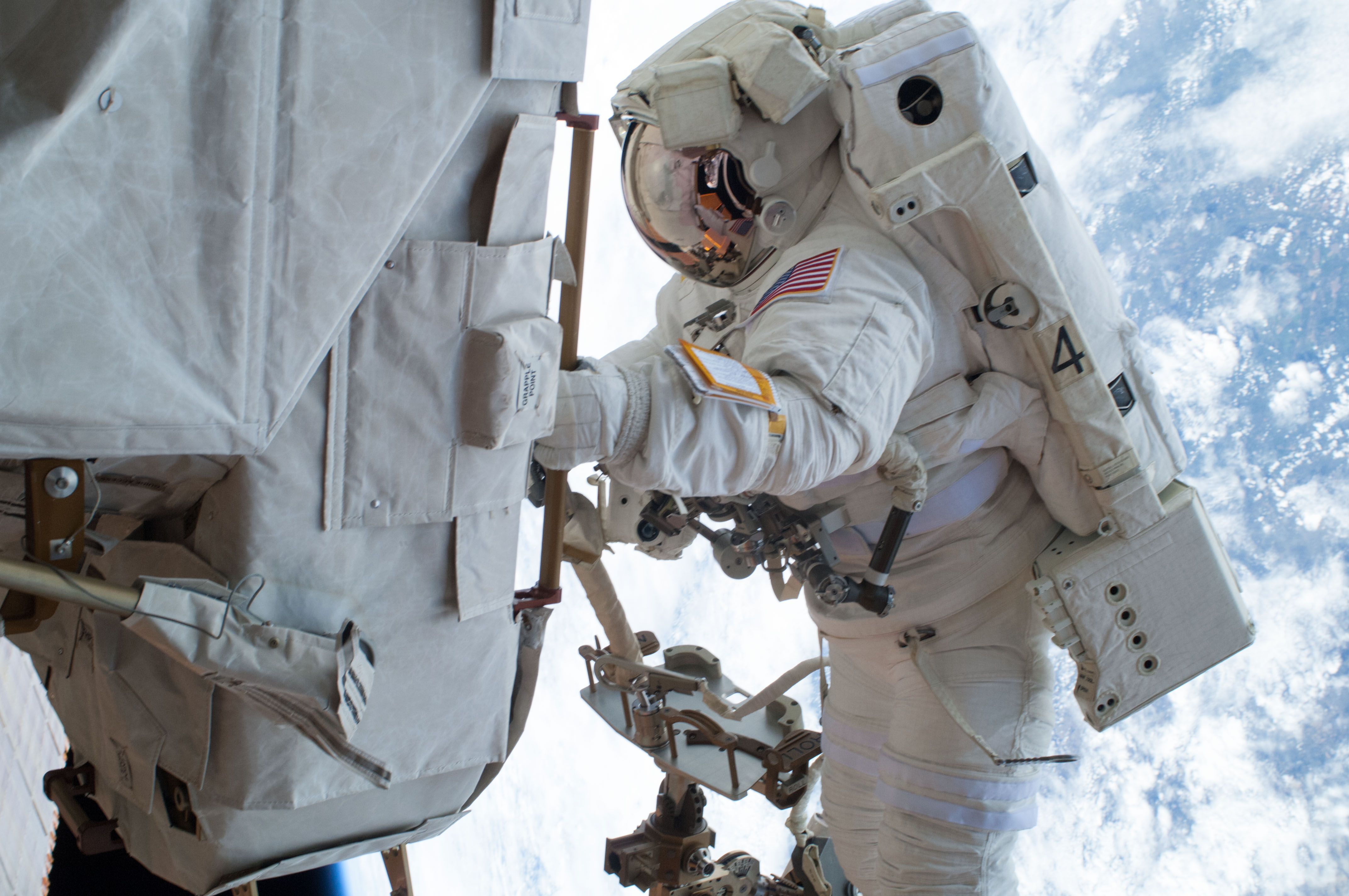 NASA astronaut Mike Hopkins, Expedition 38 flight engineer, participates in the second of two spacewalks, spread over a four-day period, which were designed to allow the crew to change out a faulty water pump on the exterior of the Earth orbiting International Space Station. He was joined on both spacewalks by NASA astronaut Rick Mastracchio.